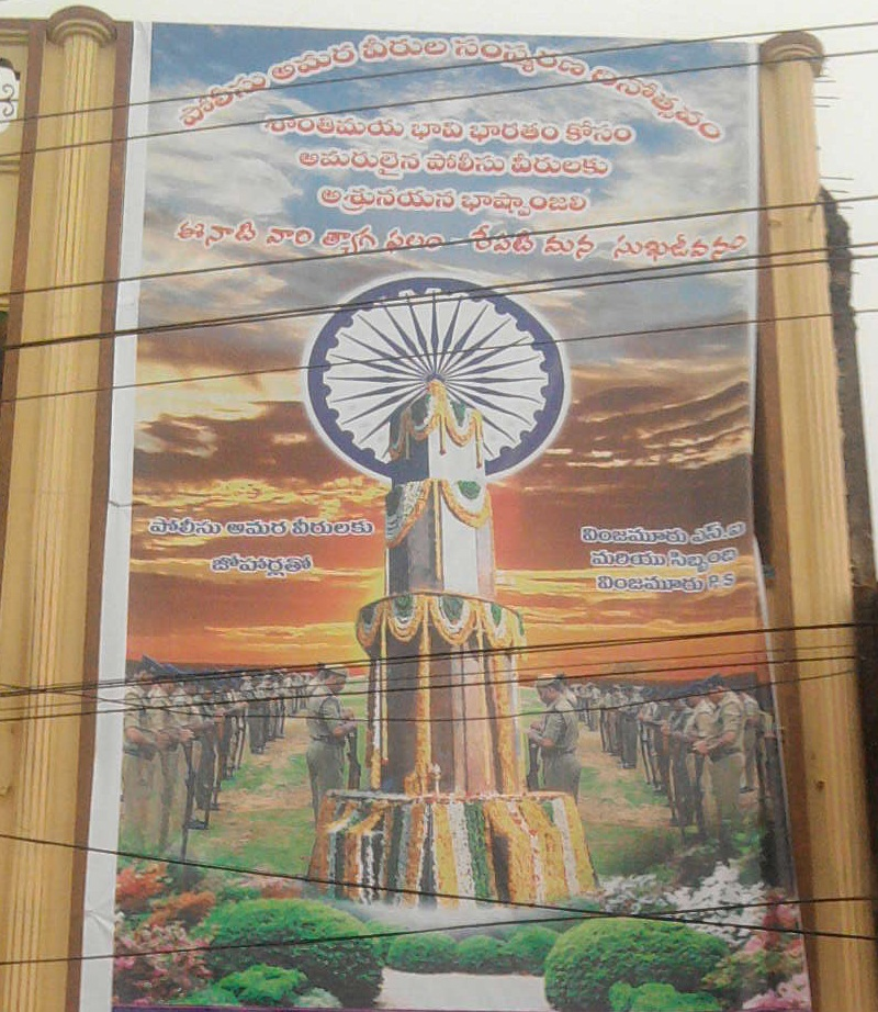 Police Memorial Day in India - October 21, 2012 at Vinjamur, Nellore (dt), A.P. India. పోలీసు అమరవీరుల సంస్మరణ దినం సందర్భంగా ఏర్పాటు చేసిన బ్యానర్.